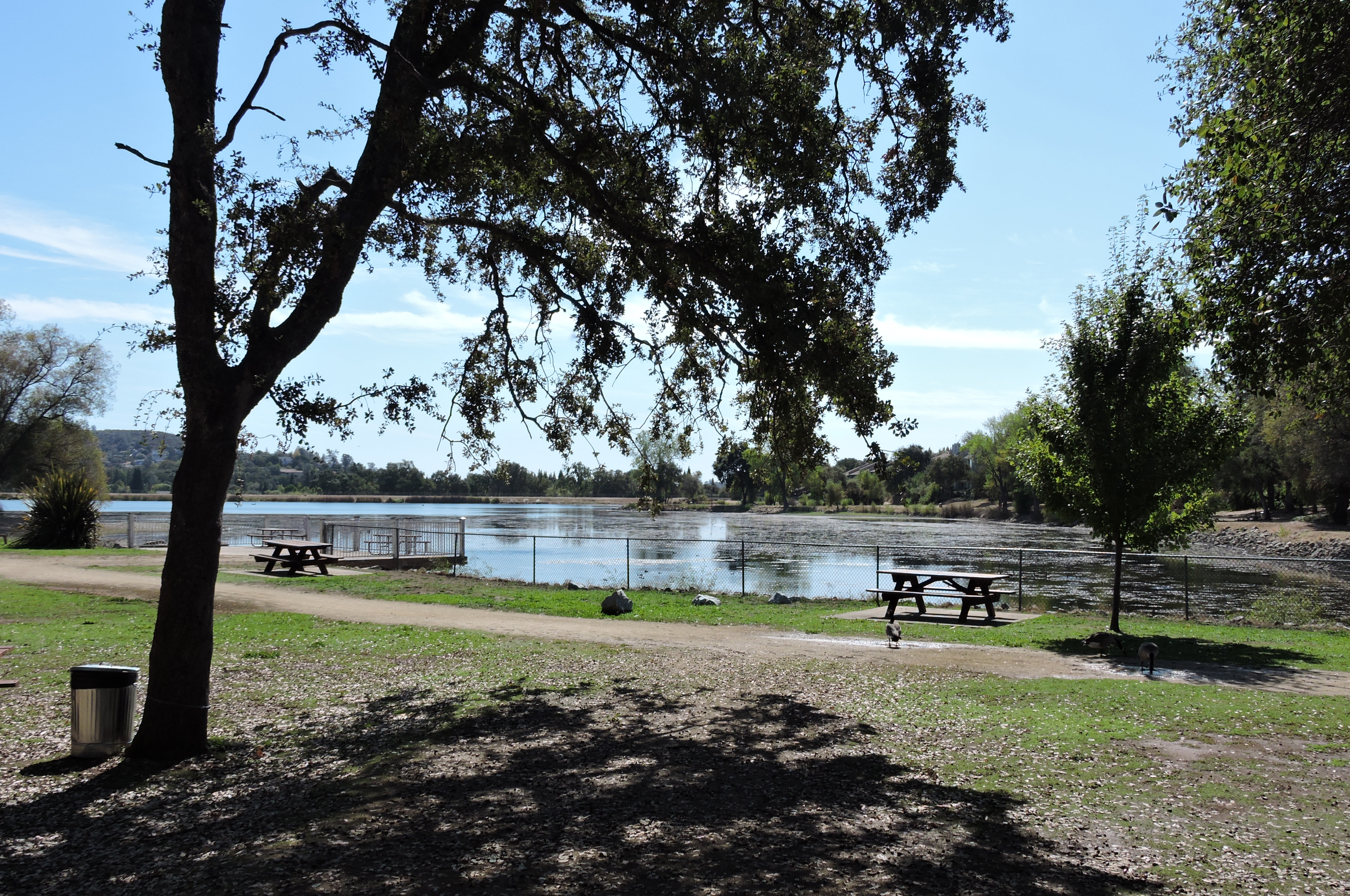 Cameron Park Lake in Cameron Park in the U.S. state of California.